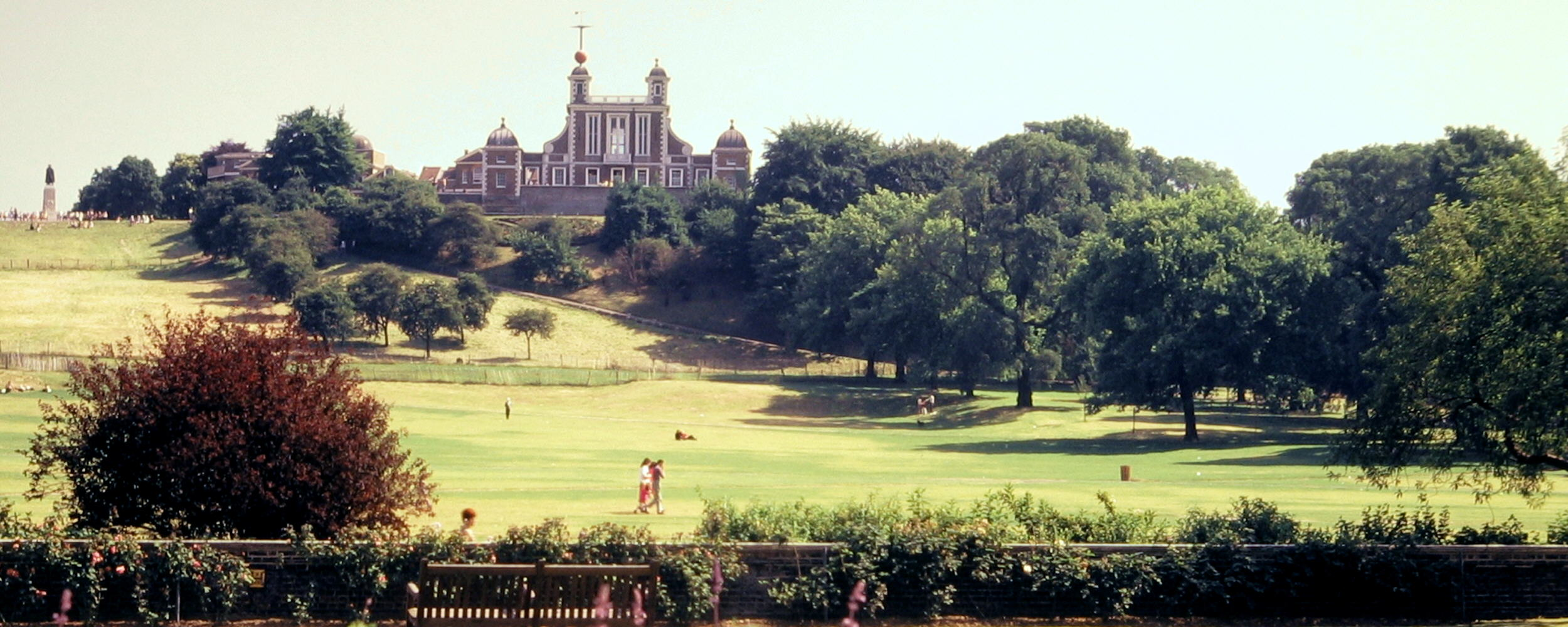 View of the gardens at the Royal Observatory Greenwich London